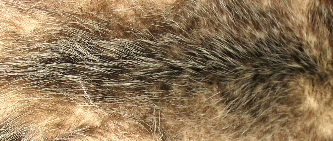 Virginia Opossum fur on display at the Patuxent Wildlife Research Center.